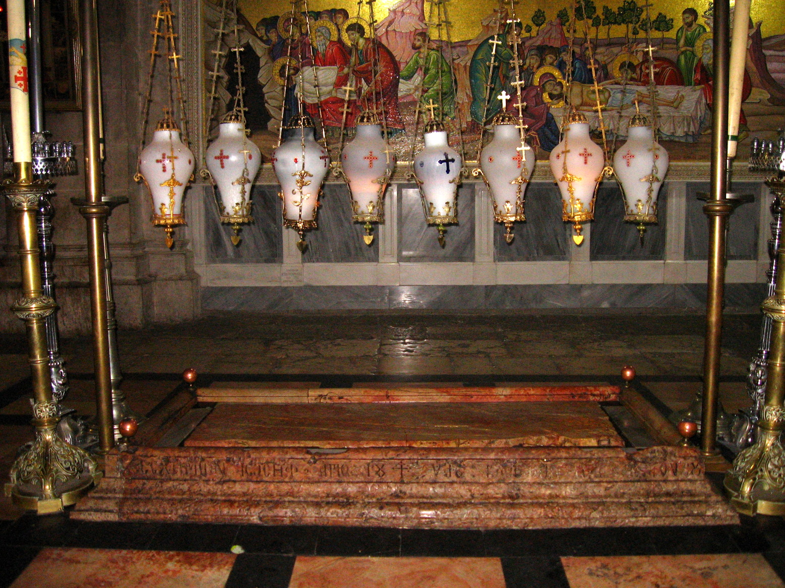 The Stone of the Anointing, in front of the main entrance in the Church of the Holy Sepulchre, Jerusalem.